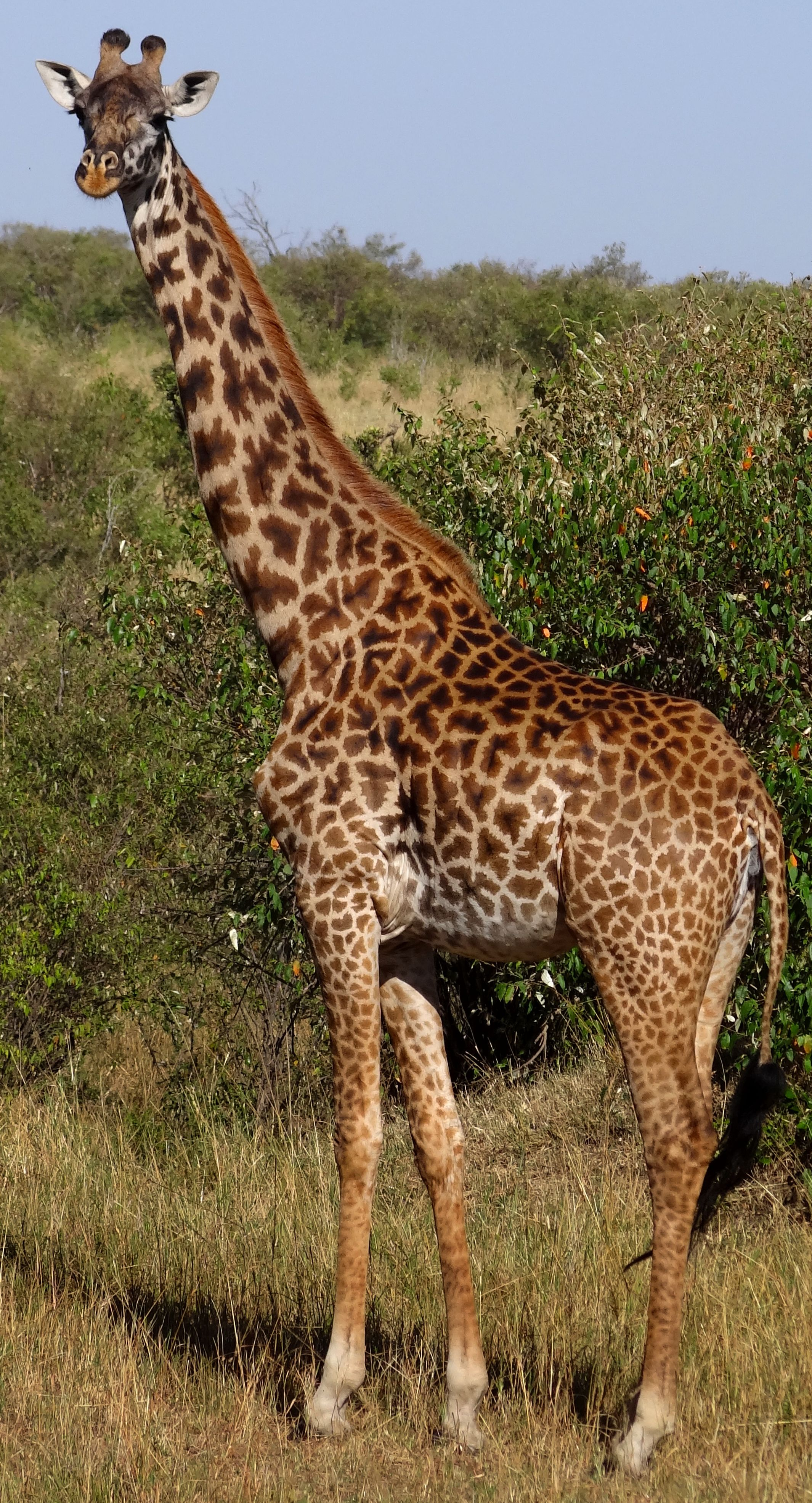 An adult female masai giraffe in the Masaai Mara national park, Kenya.